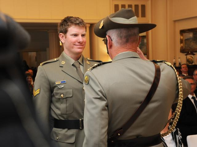 Corporal Daniel Alan Keighran VC invested with Australia’s 99th Victoria Cross